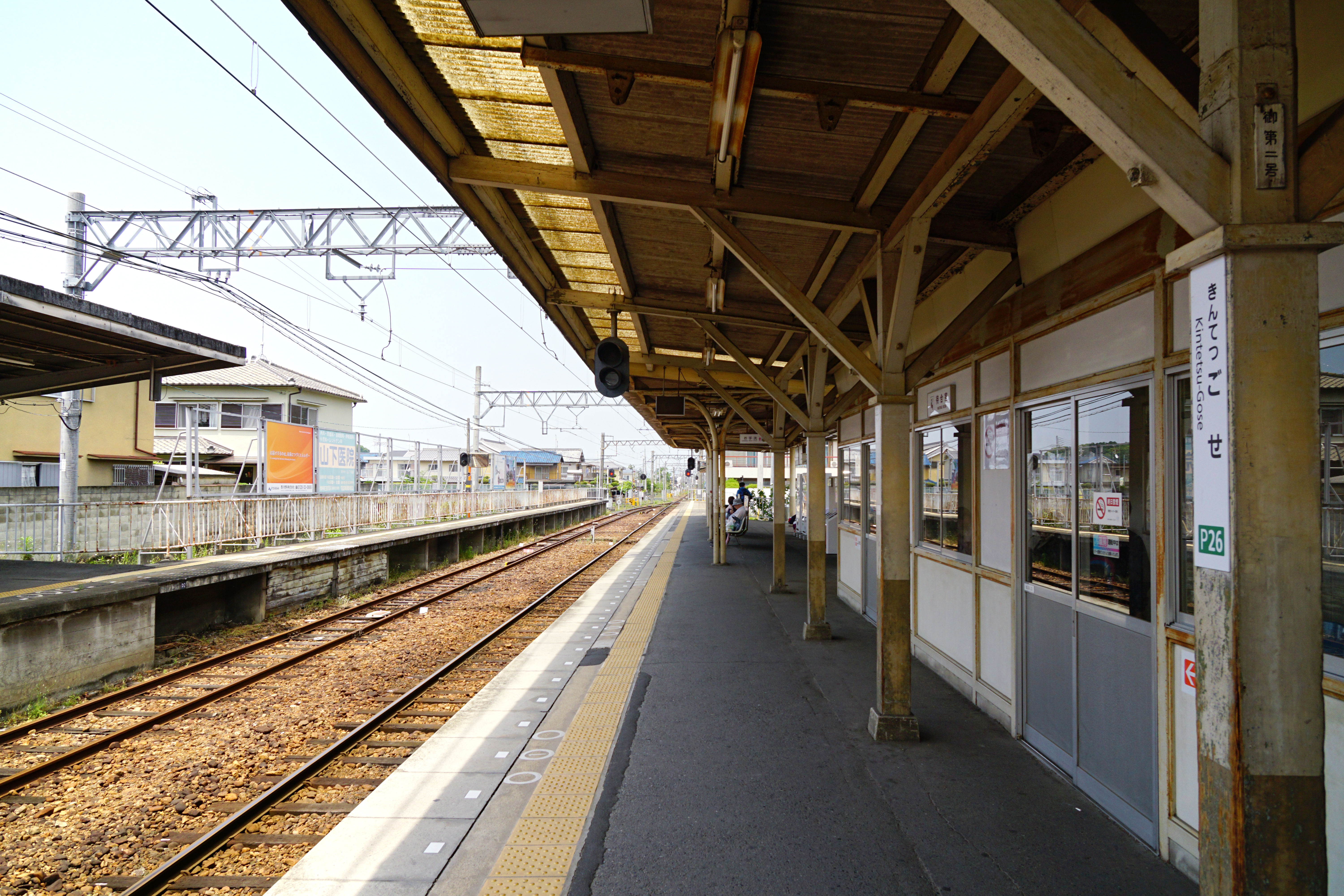 Kintetsu Gose Station in Gose, Nara prefecture, Japan